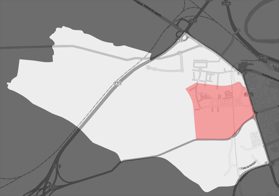 This map may be incomplete, and may contain errors. Don't rely solely on it for navigation.